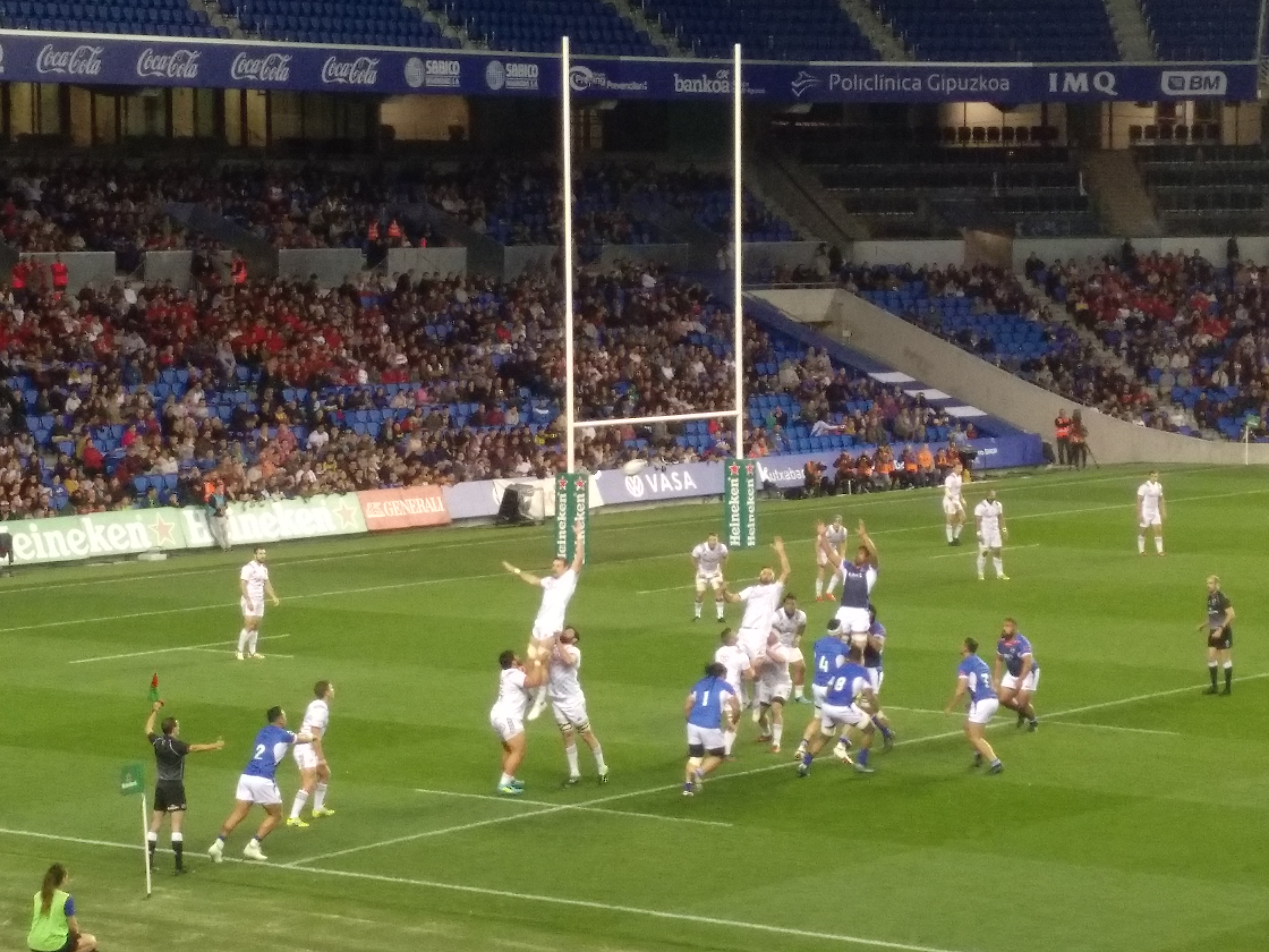 USA 30-29 Samoa rugbi match in Donostia, 2018-11-10